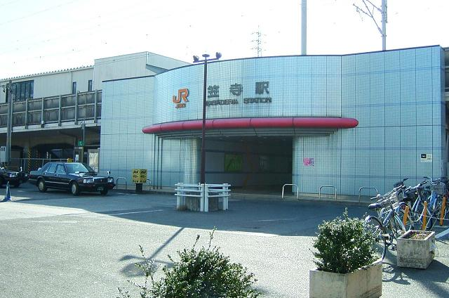 East Exit, Kasadera Station